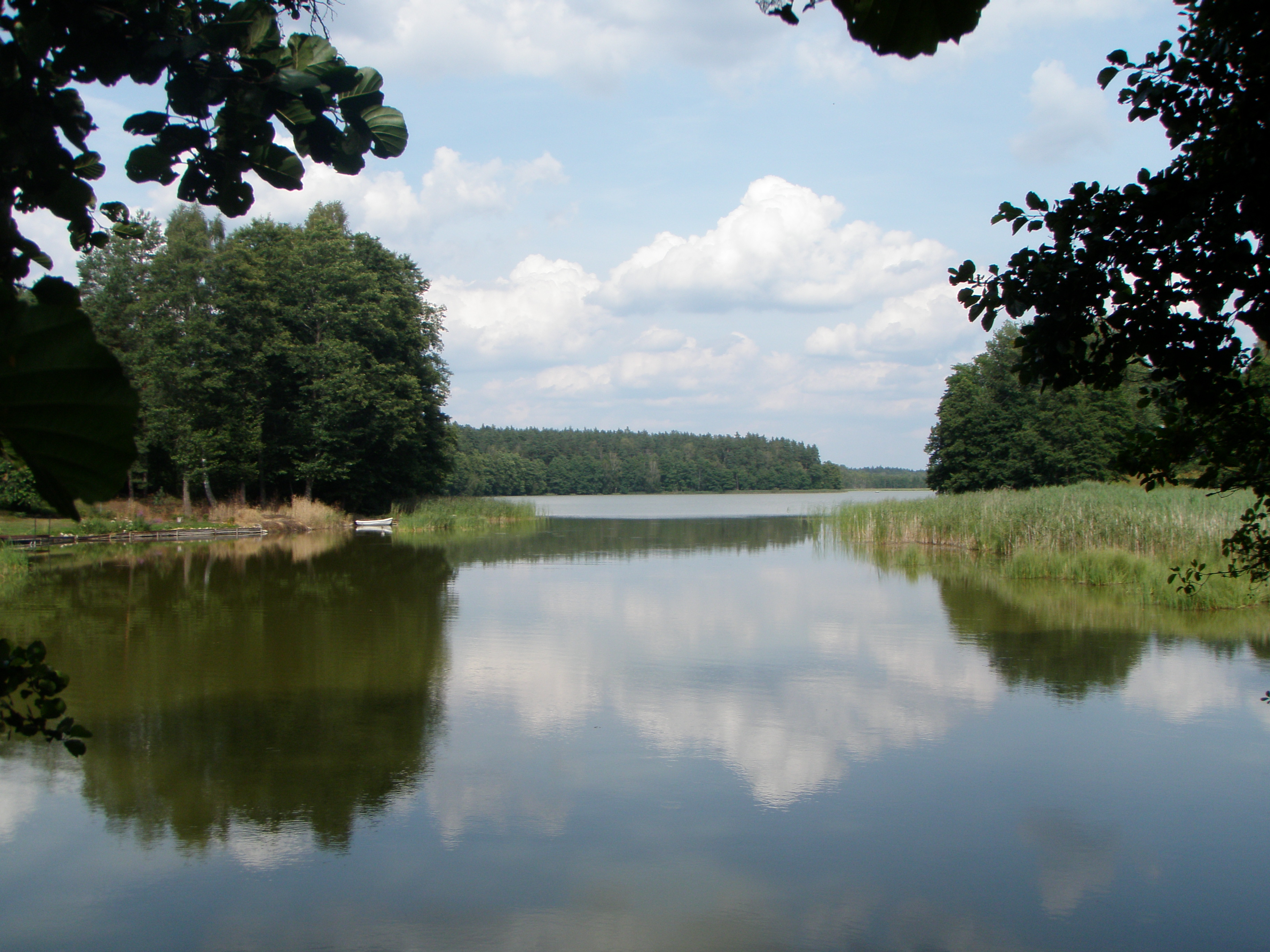 Lake Sajenko in Augustów, Poland.